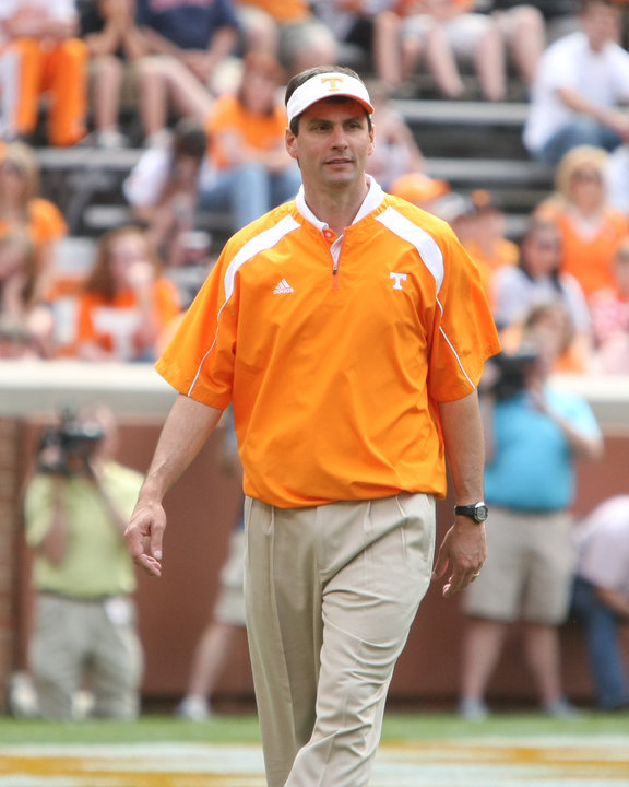 Derek Dooley at the Orange and White game in Knoxville, TN, after taking over as Head Coach.